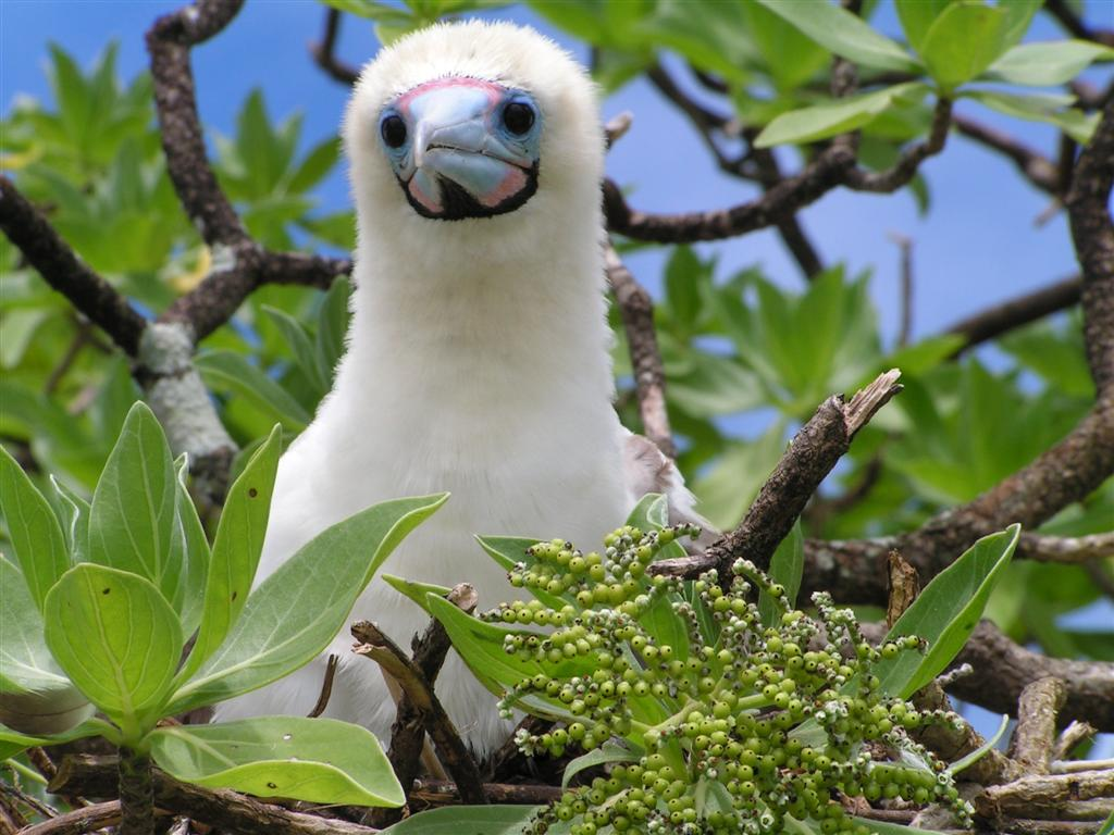 Adult red-footed booby (Sula sula) nesting in a tree heliotrope (Heliotropium foertherianum), a species of flowering plant in the borage family, Boraginaceae. This picture was taken in the Palmyra Atoll by the United States Coast Guard.